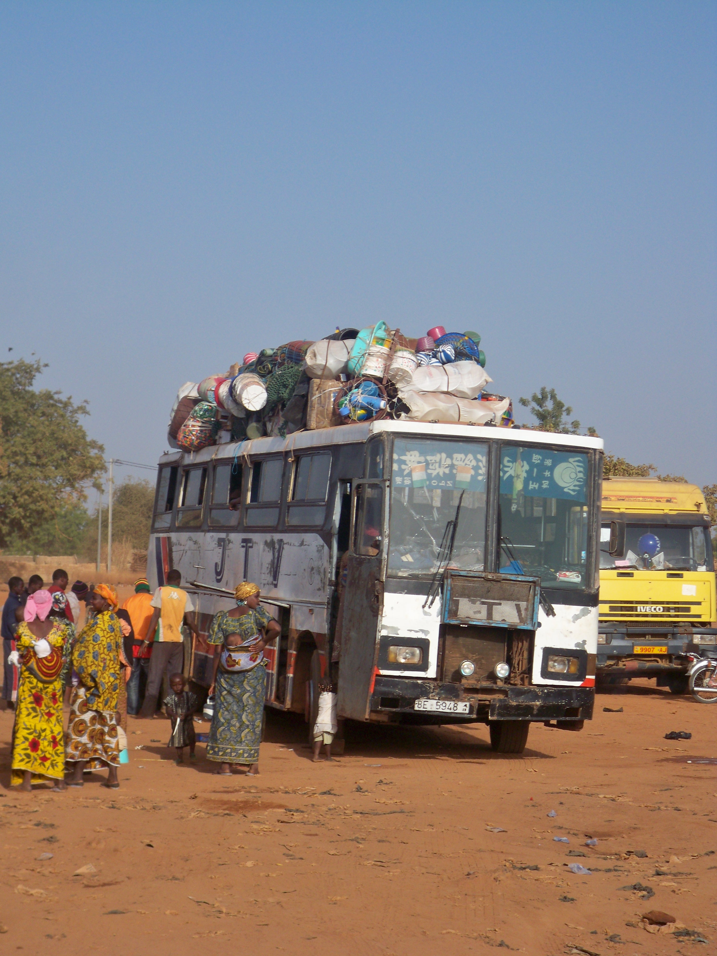 Motor coach in Niger (border checkpoint of Makalondi) near the border with Burkina Faso